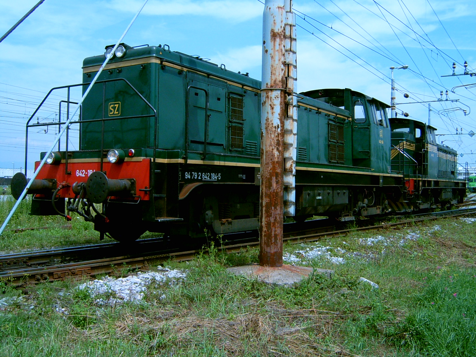 Slovenian 642 class locomotive